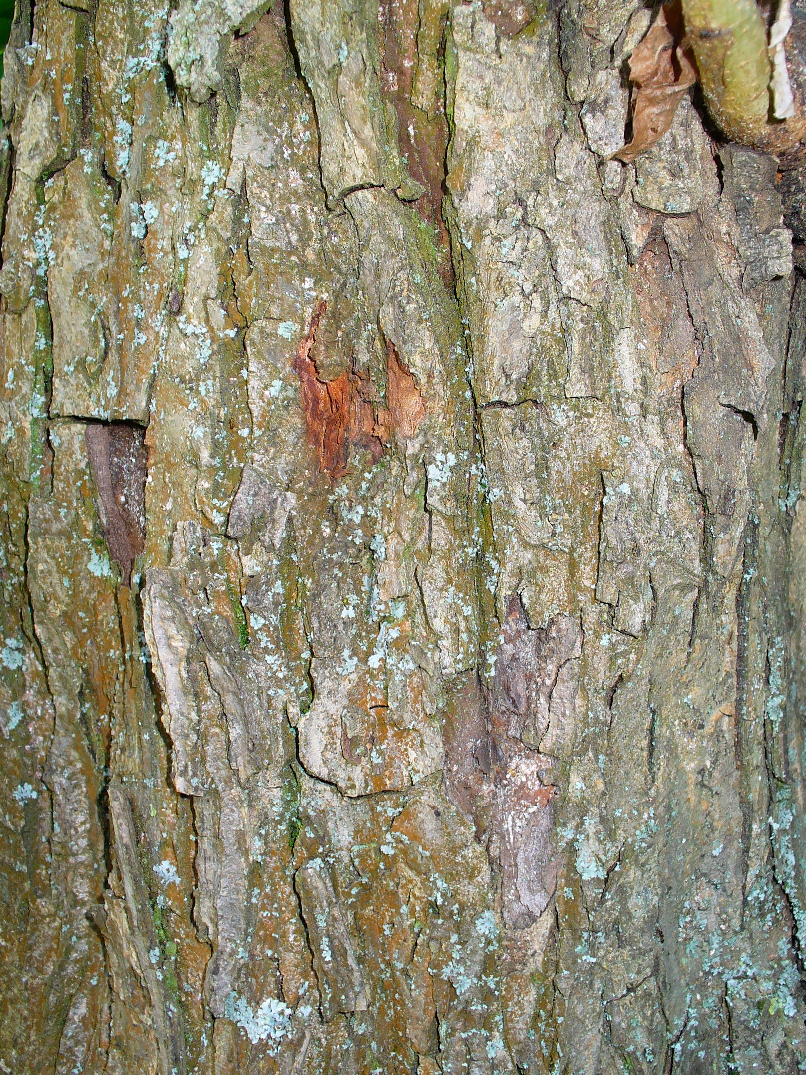 Common Medlar, bark; Botanical Garden KIT, Karlsruhe, Germany.